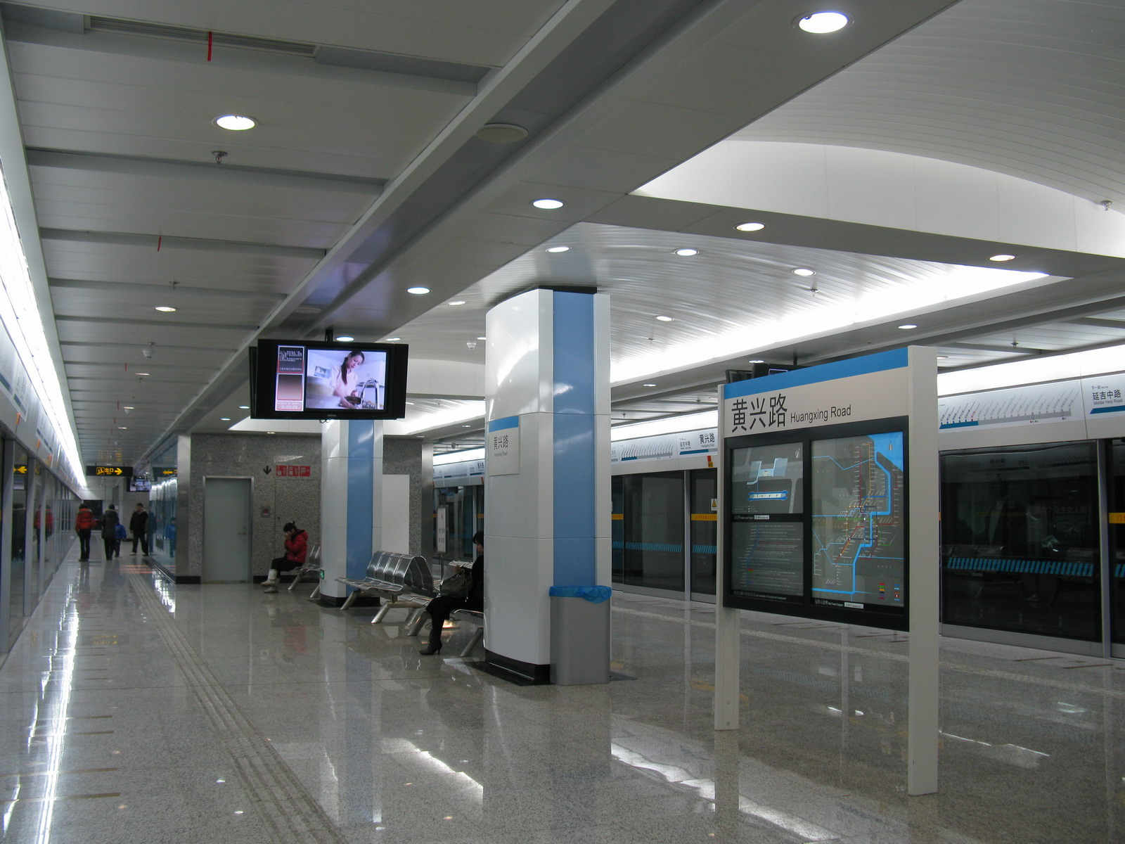 黄兴路站 8号线月台 Line 8 Platform of Huangxing Road Station